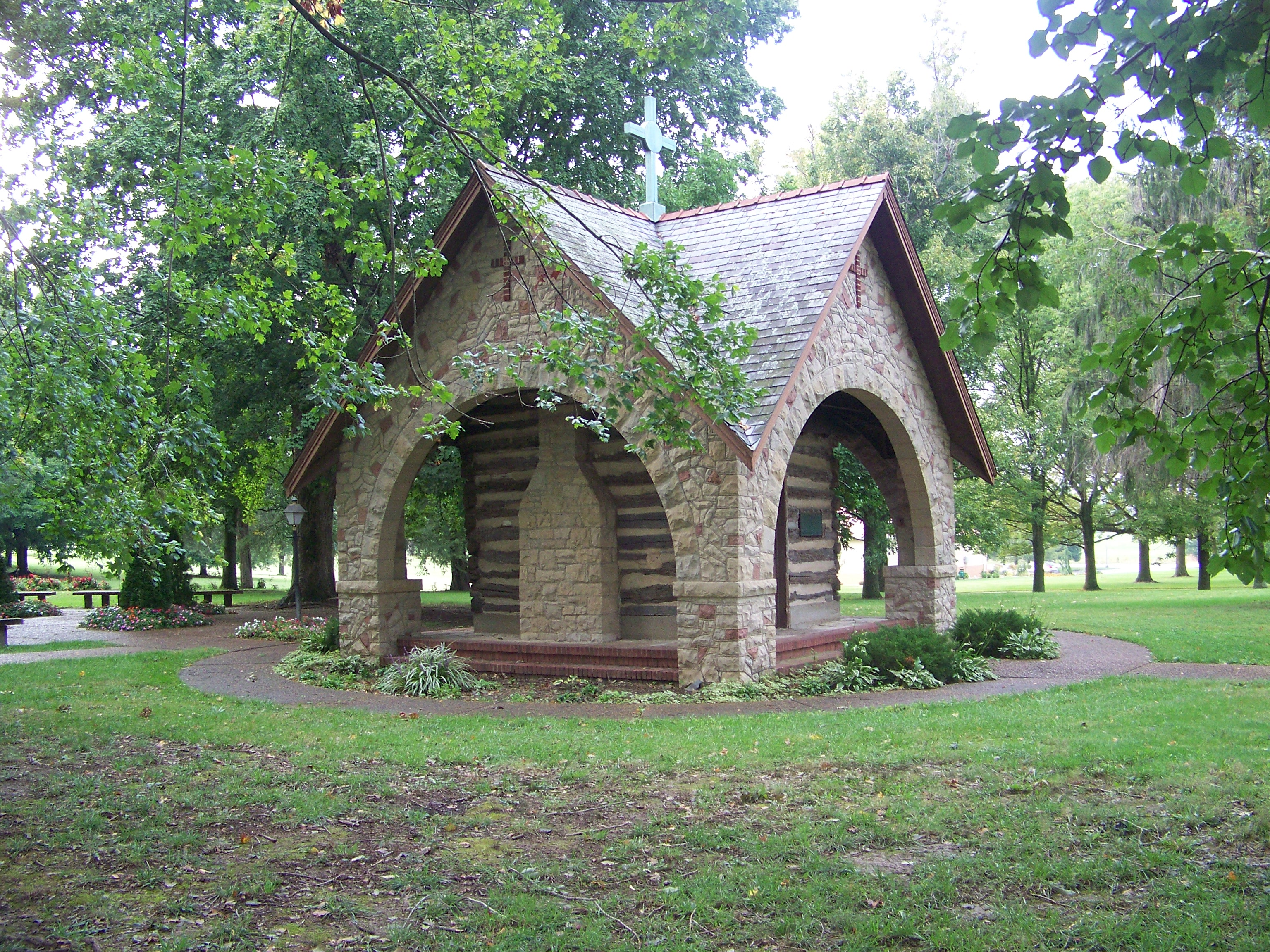 St. Mary of the Barrens (Perryville, Missouri) first log seminary